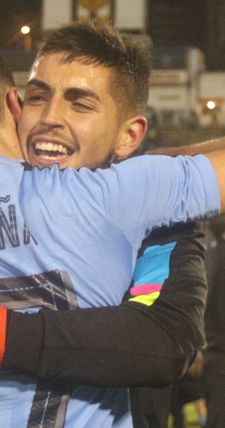 PREMIACIÓN CAMPEONATO SUDAMERICANO SUB 20